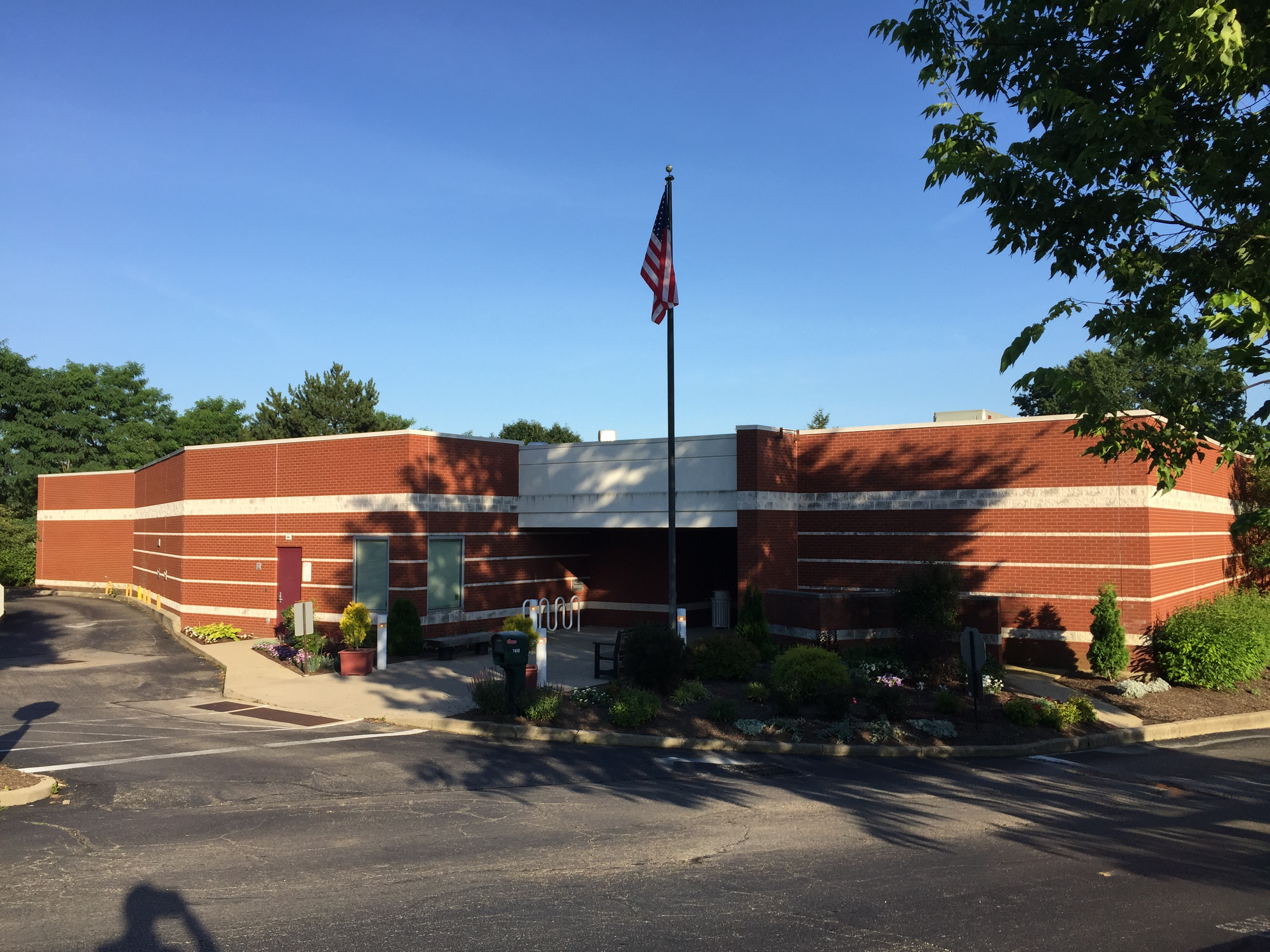 Anderson Branch of the Public Library of Cincinnati and Hamilton County in Anderson Township, Hamilton County, Ohio in 2019